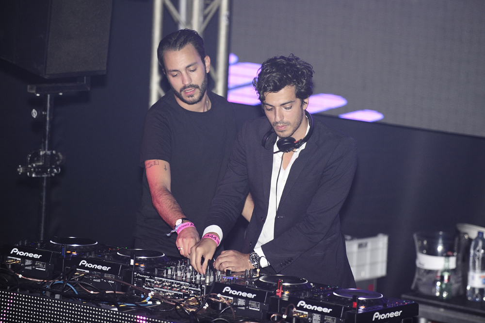 Brodinski and Gesaffelstein playing at Amnesia Ibiza - 17 July 12